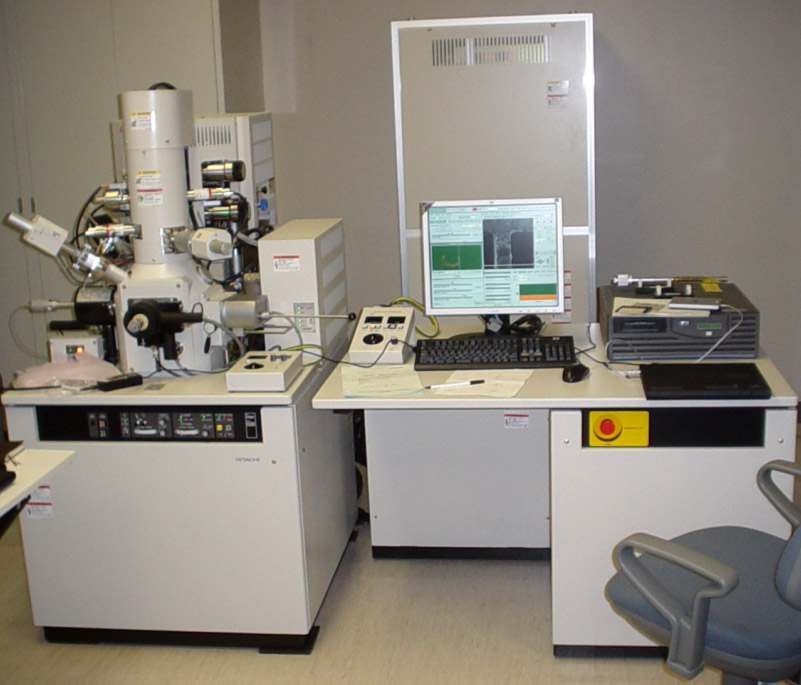 Photograph of a modern focused ion beam workstation.